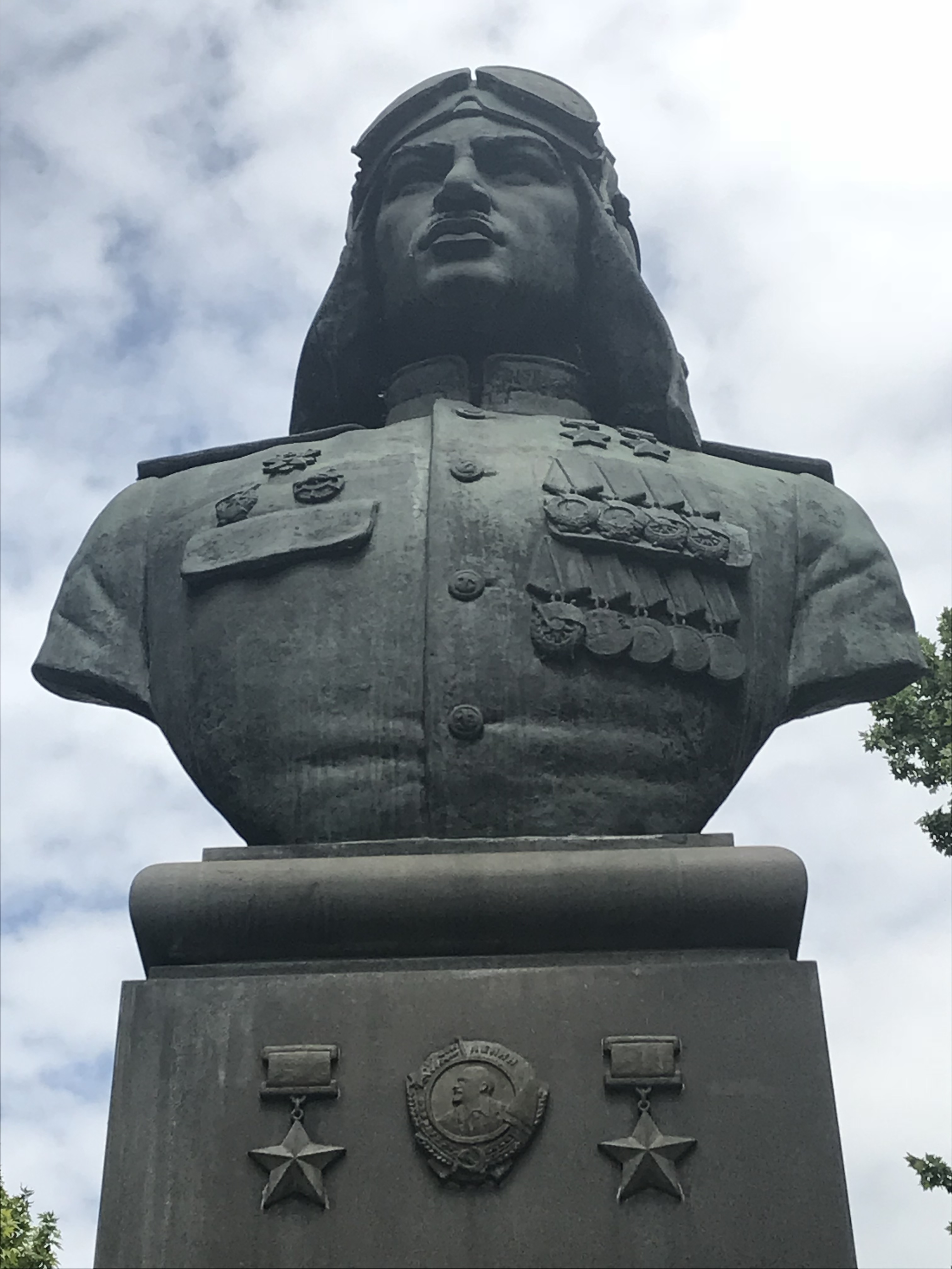 Bust of Nelson Stepanyan in Yerevan.